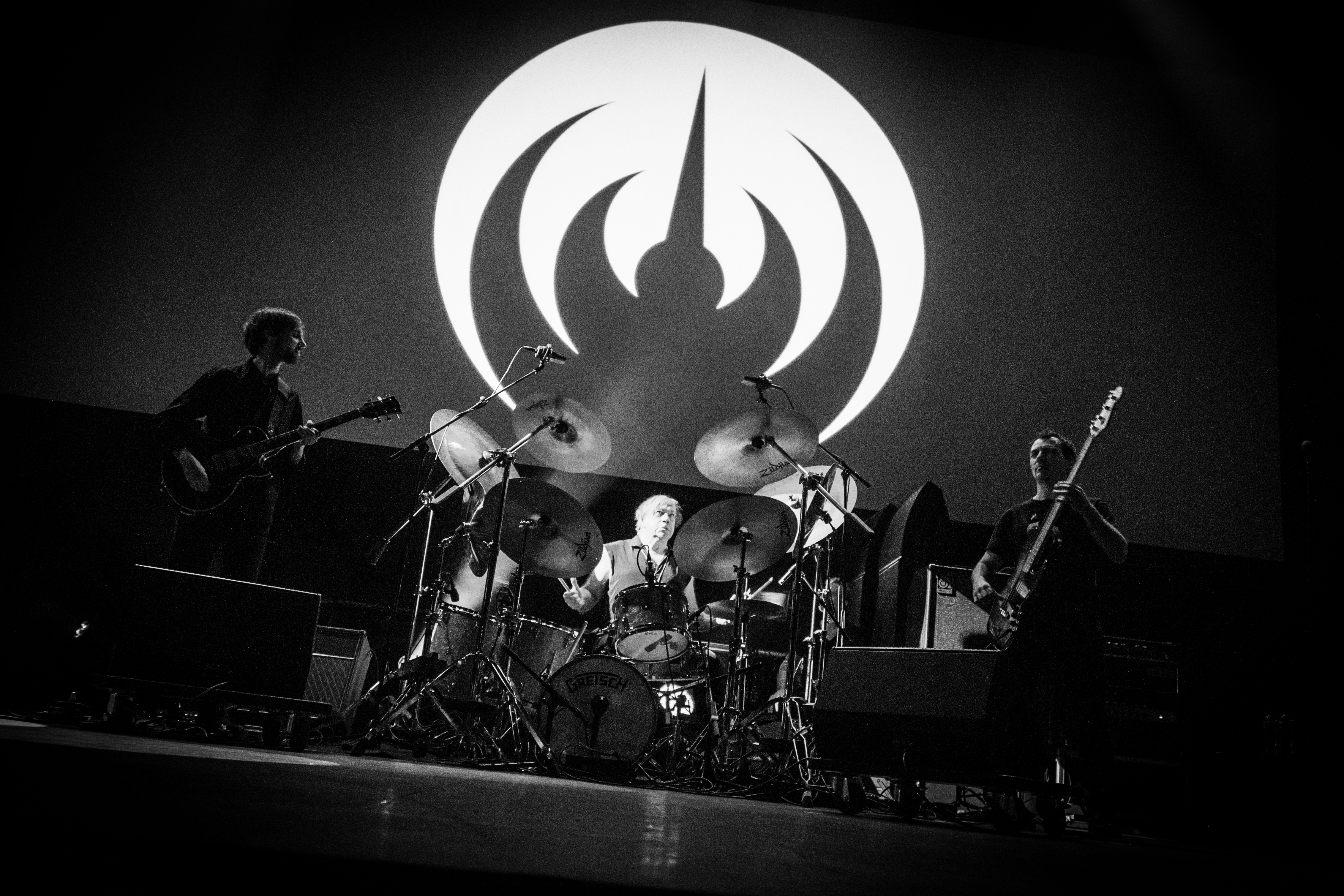 MAGMA live at Roadburn Festival, Tilburg, April 2017